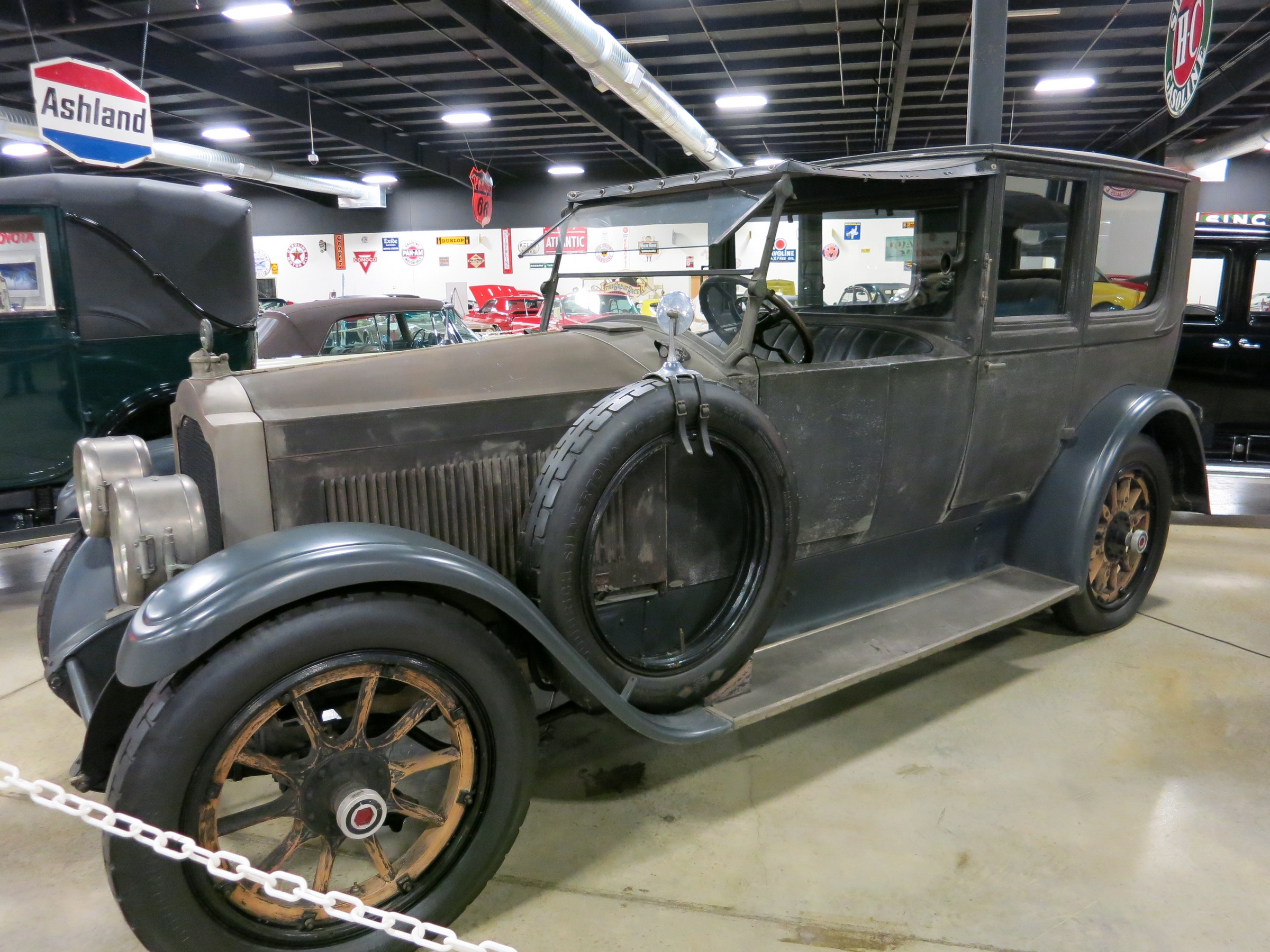 Holbrook open-drive limousine for Atwater Kent on a 1921 Packard Twin Six chassis Once owned by Atwater Kent. Tupelo Automobile Museum Tupelo, Mississippi